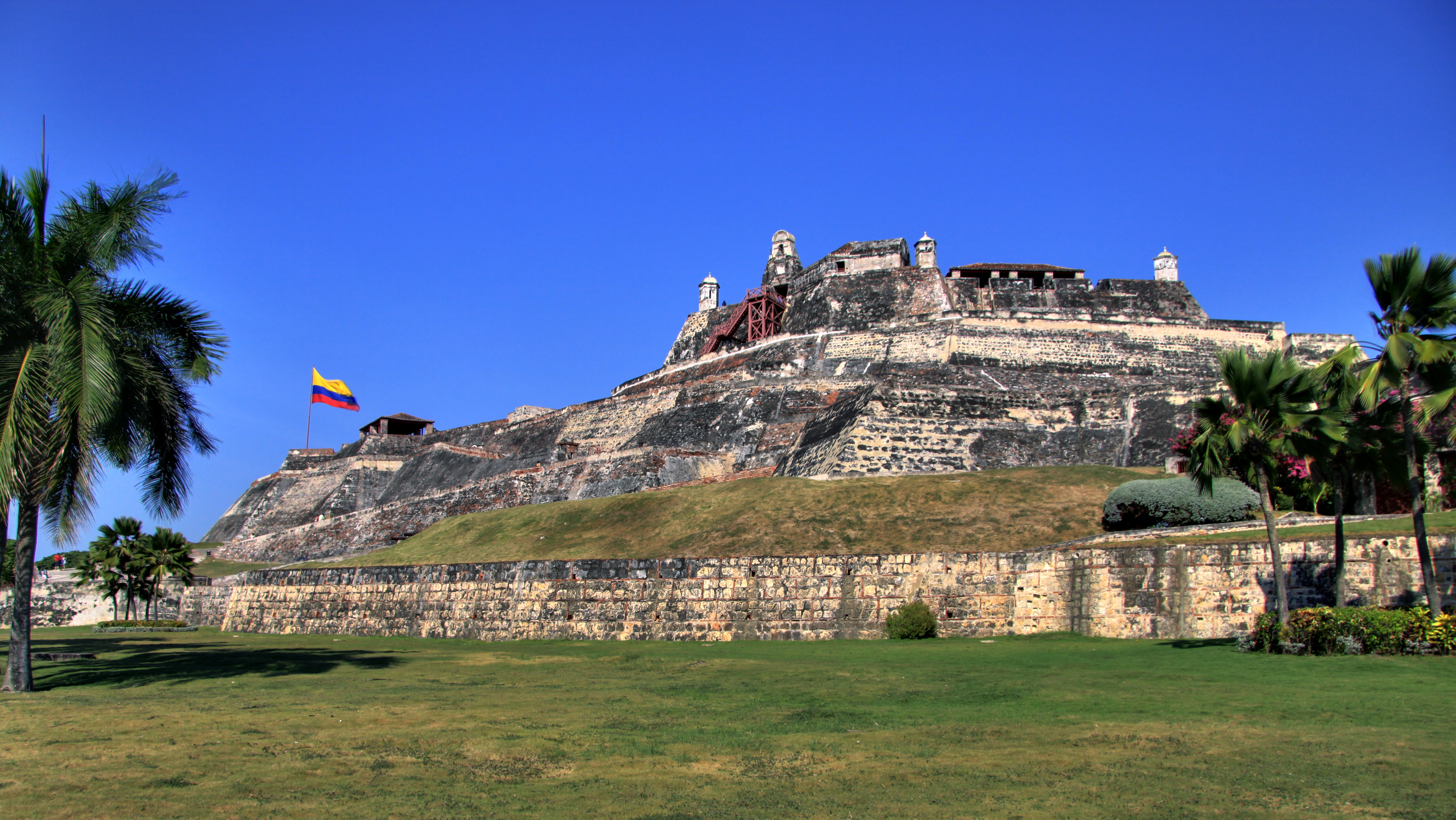 Please, have this description accessible to all by translating it in different languages.